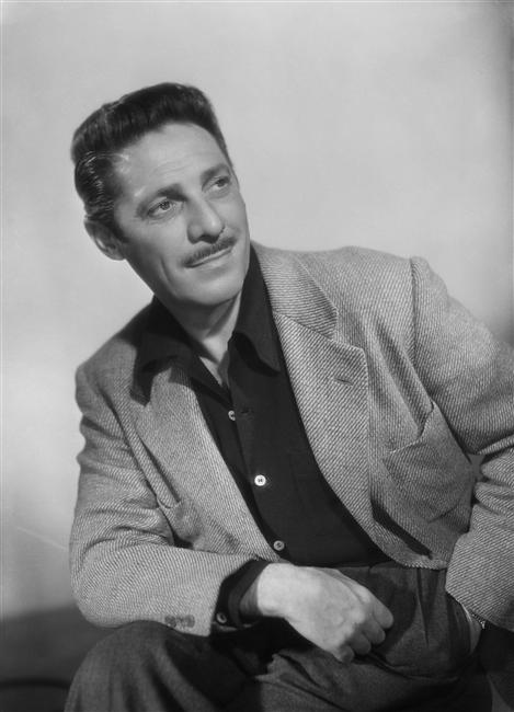 Studio photo